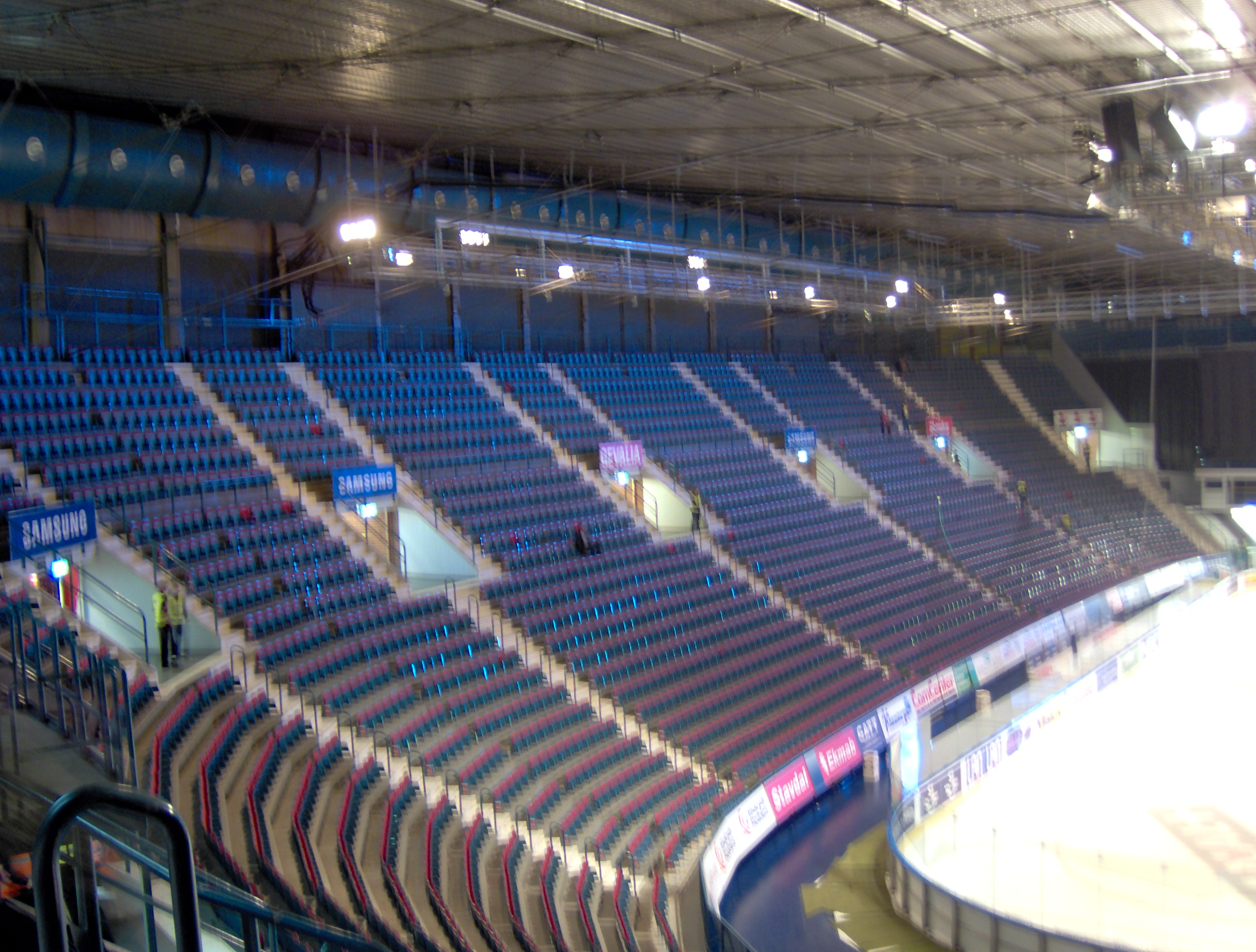 Interior of Johanneshovs isstadion.